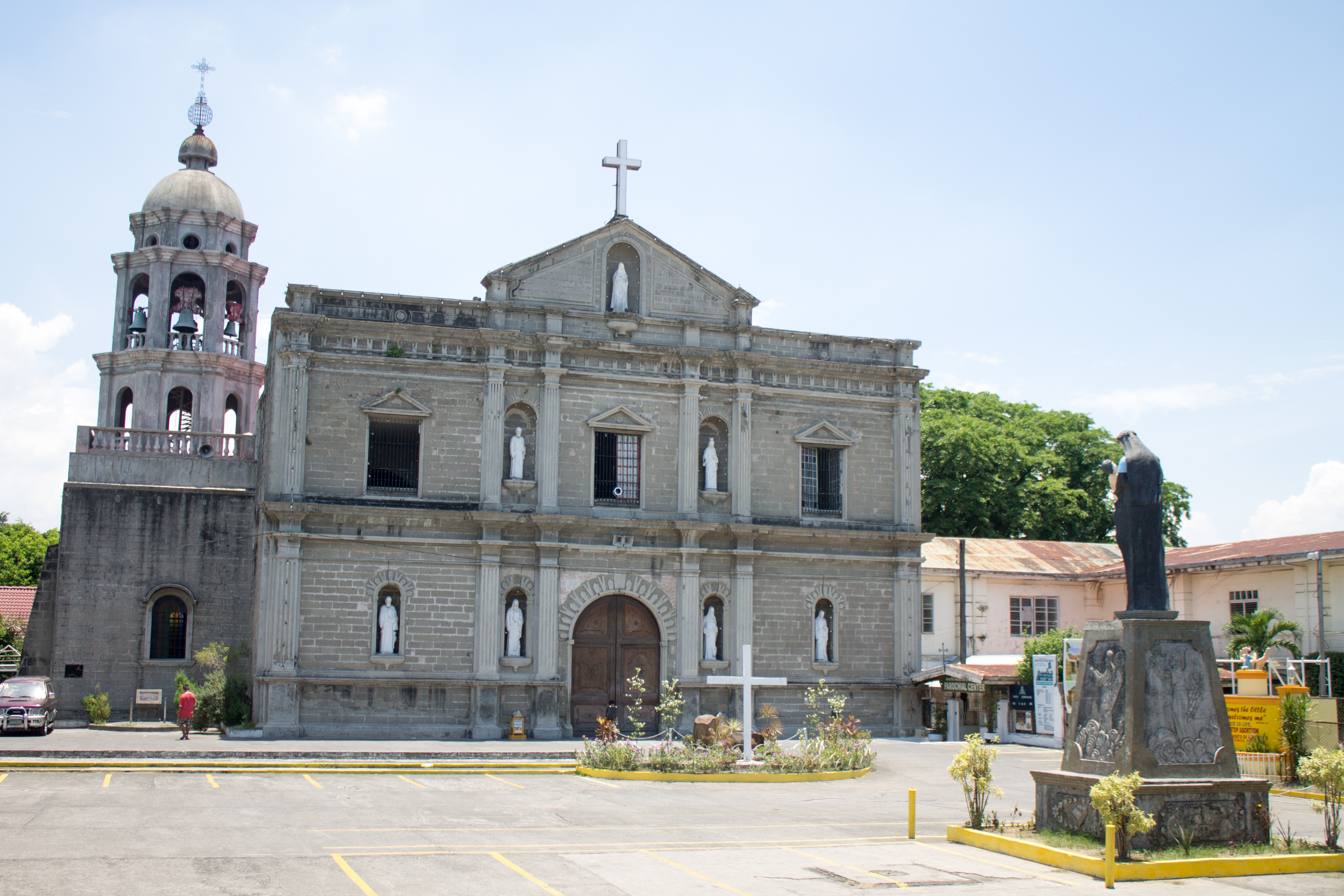 Catholic Church in Sta. Rosa, Laguna